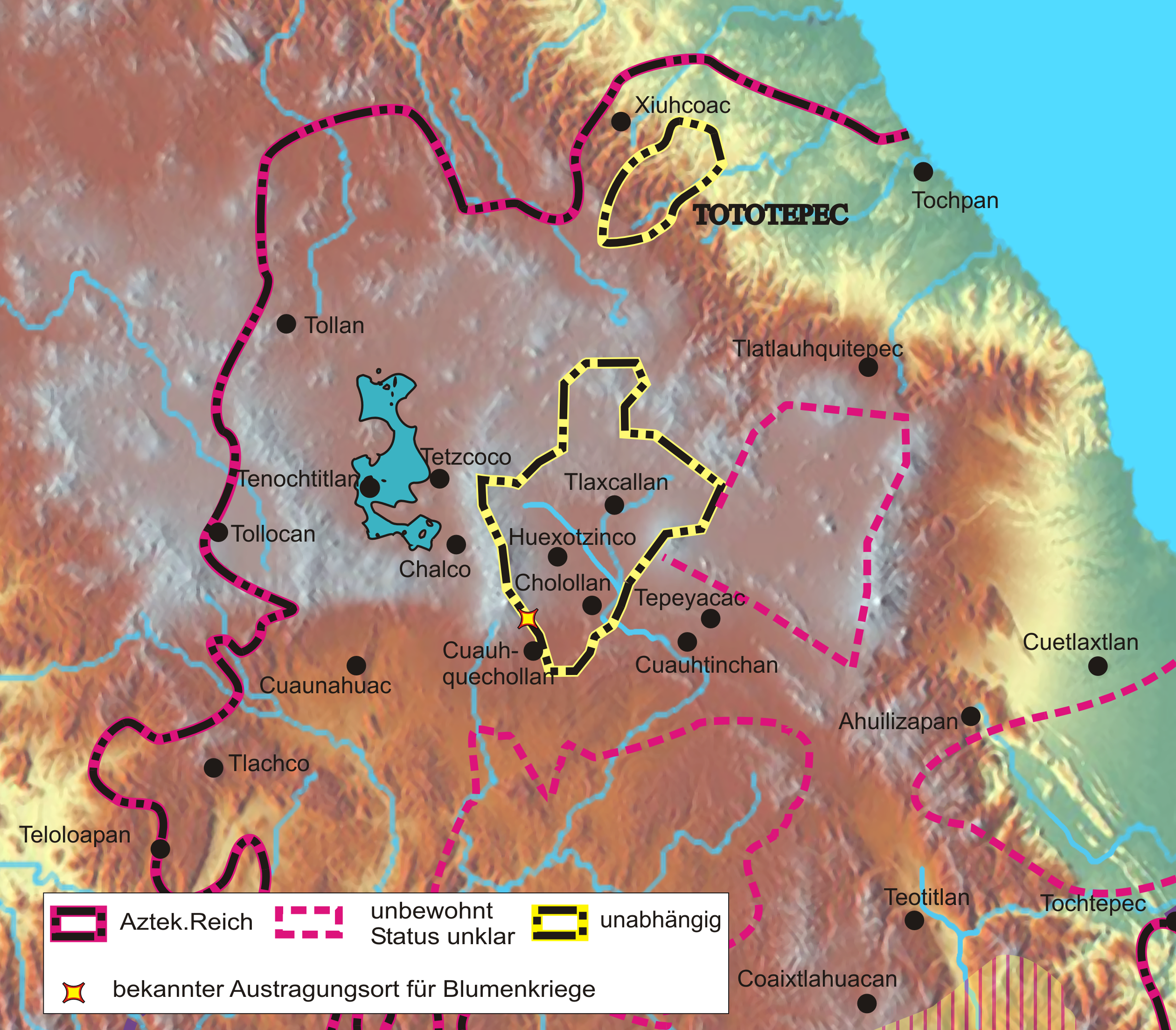 Mexica Empire: detail with Tlaxcallan Huexotzinco enclave.